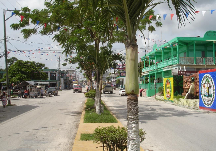 Victoria Ave, OW